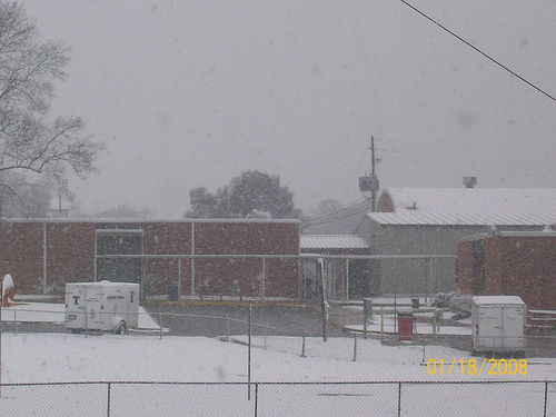 Thorsby High School in snow.